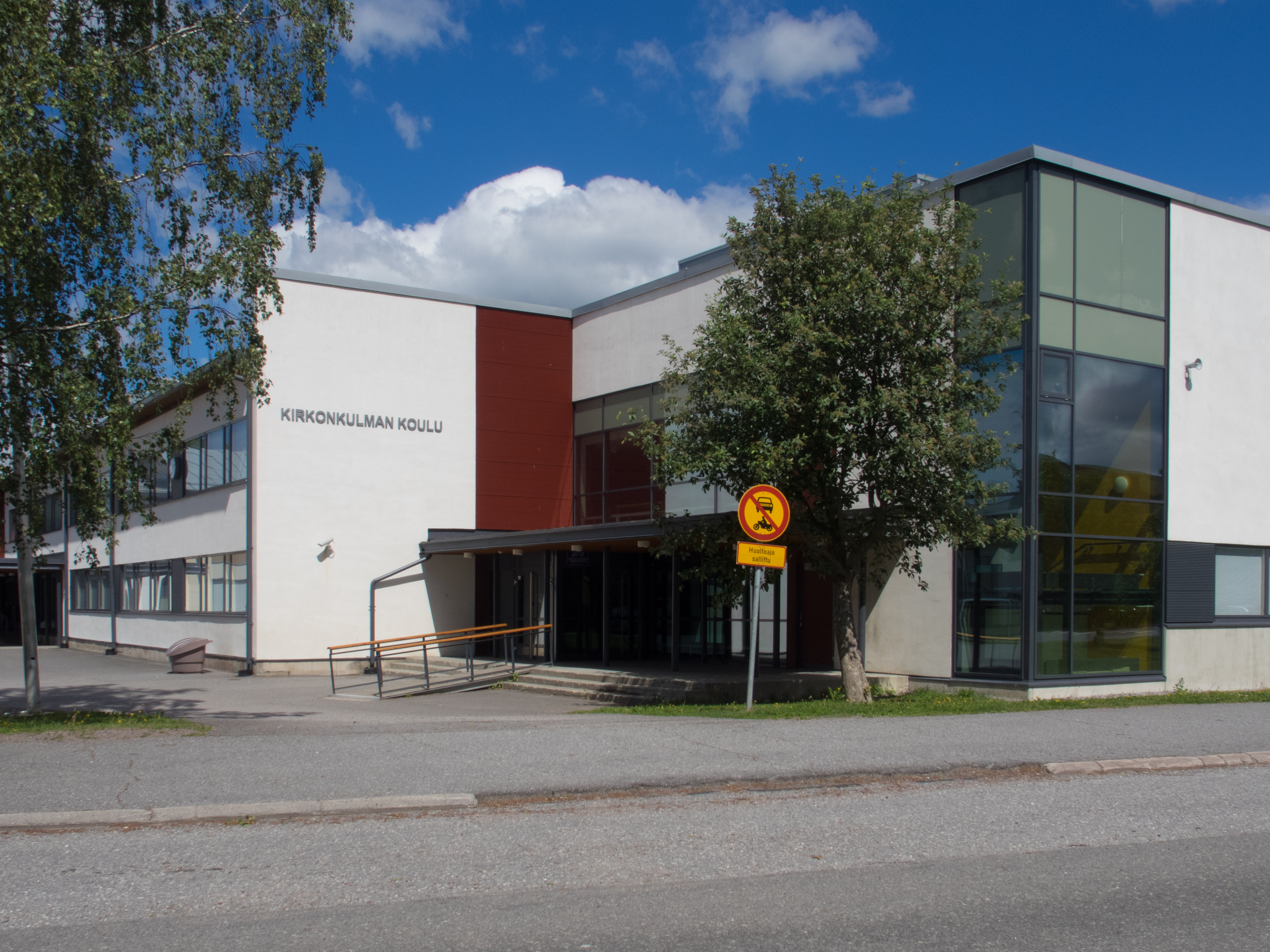 Kirkonkulman koulu, elementary school in downtown Lieto.